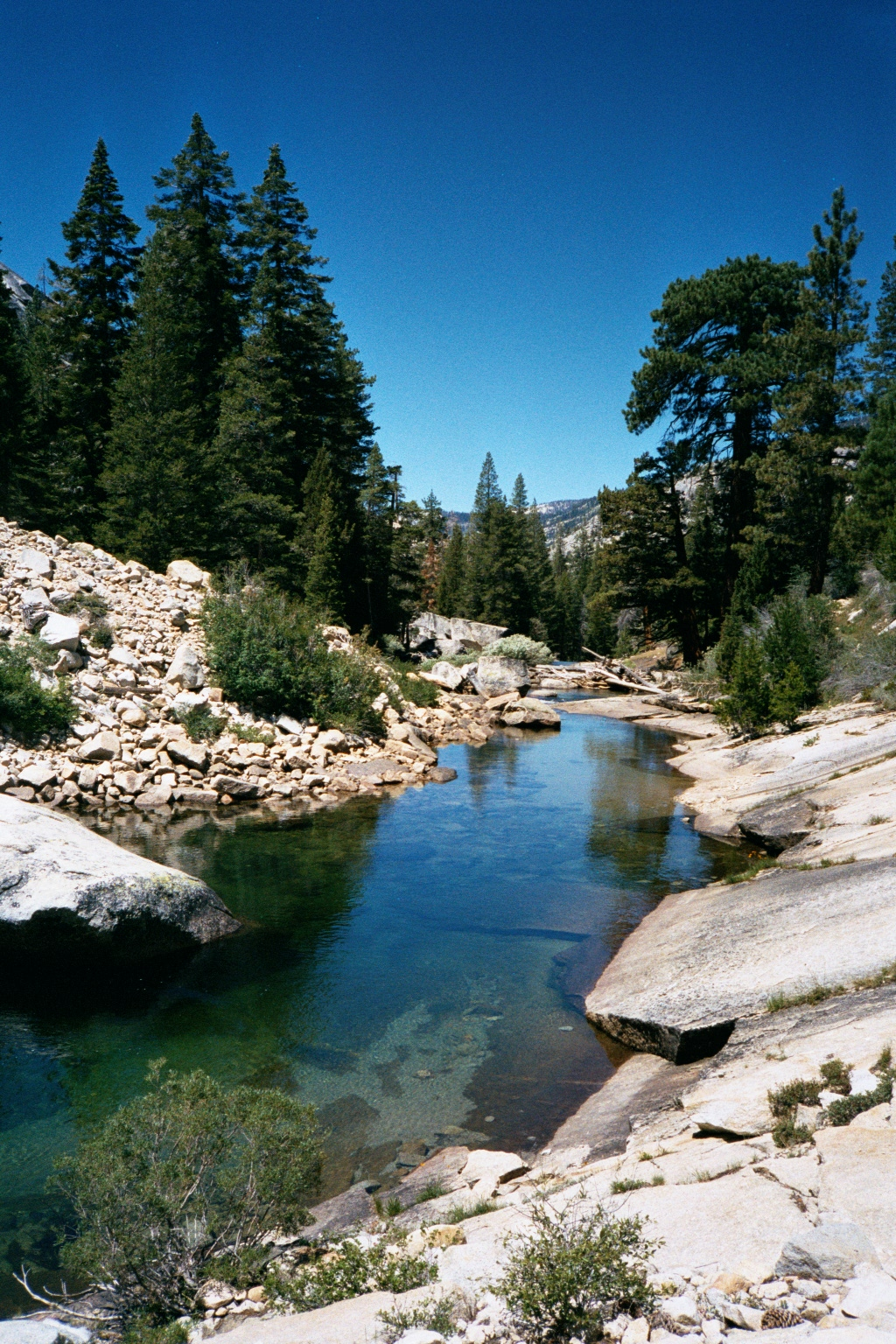 Merced River in Yosemite National Park016